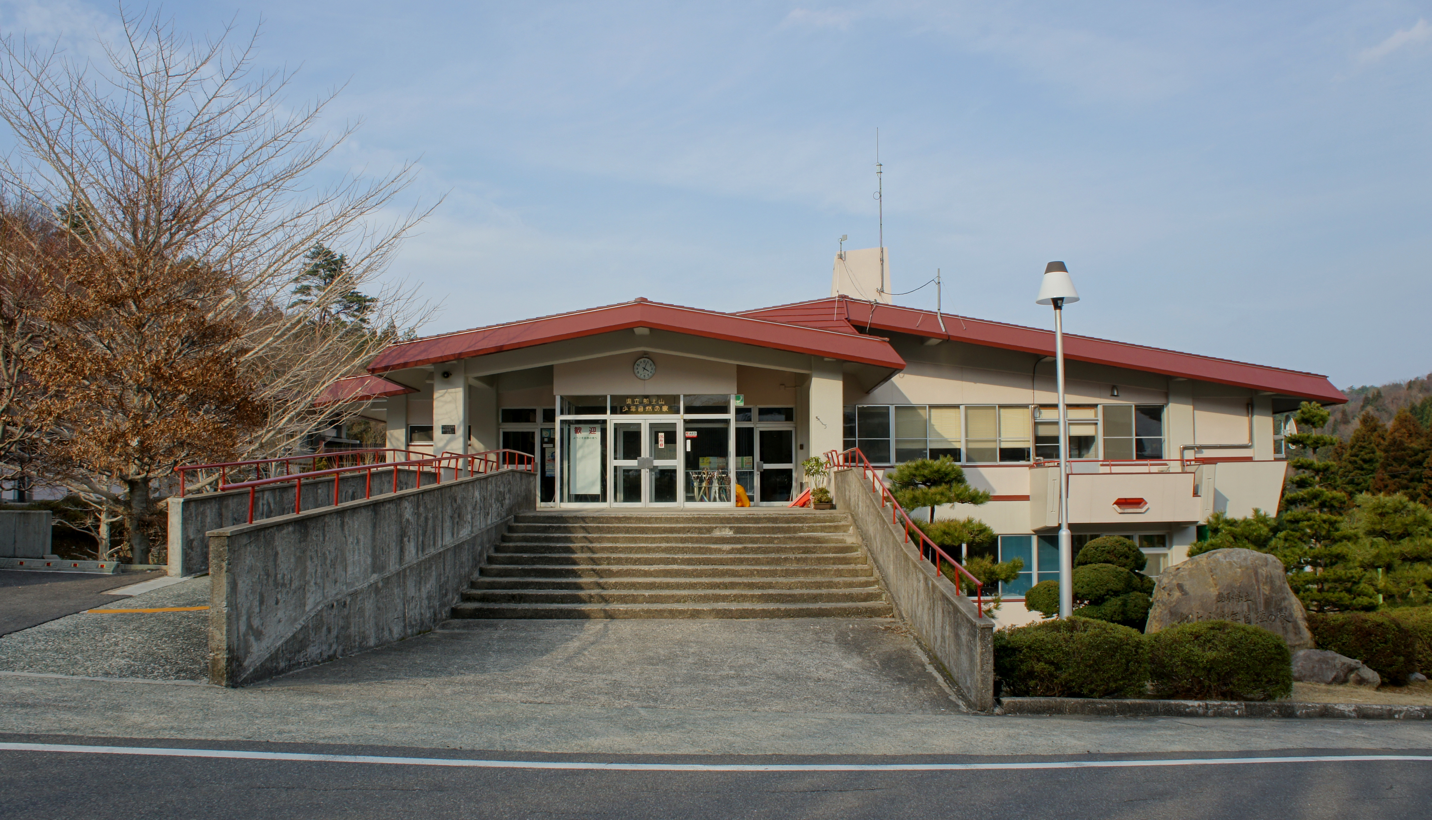 Senjosan Shonen Shizen No Ie ("Mount Senjo Nature House for Youth") in Kotoura, Tottori Prefecture, Japan